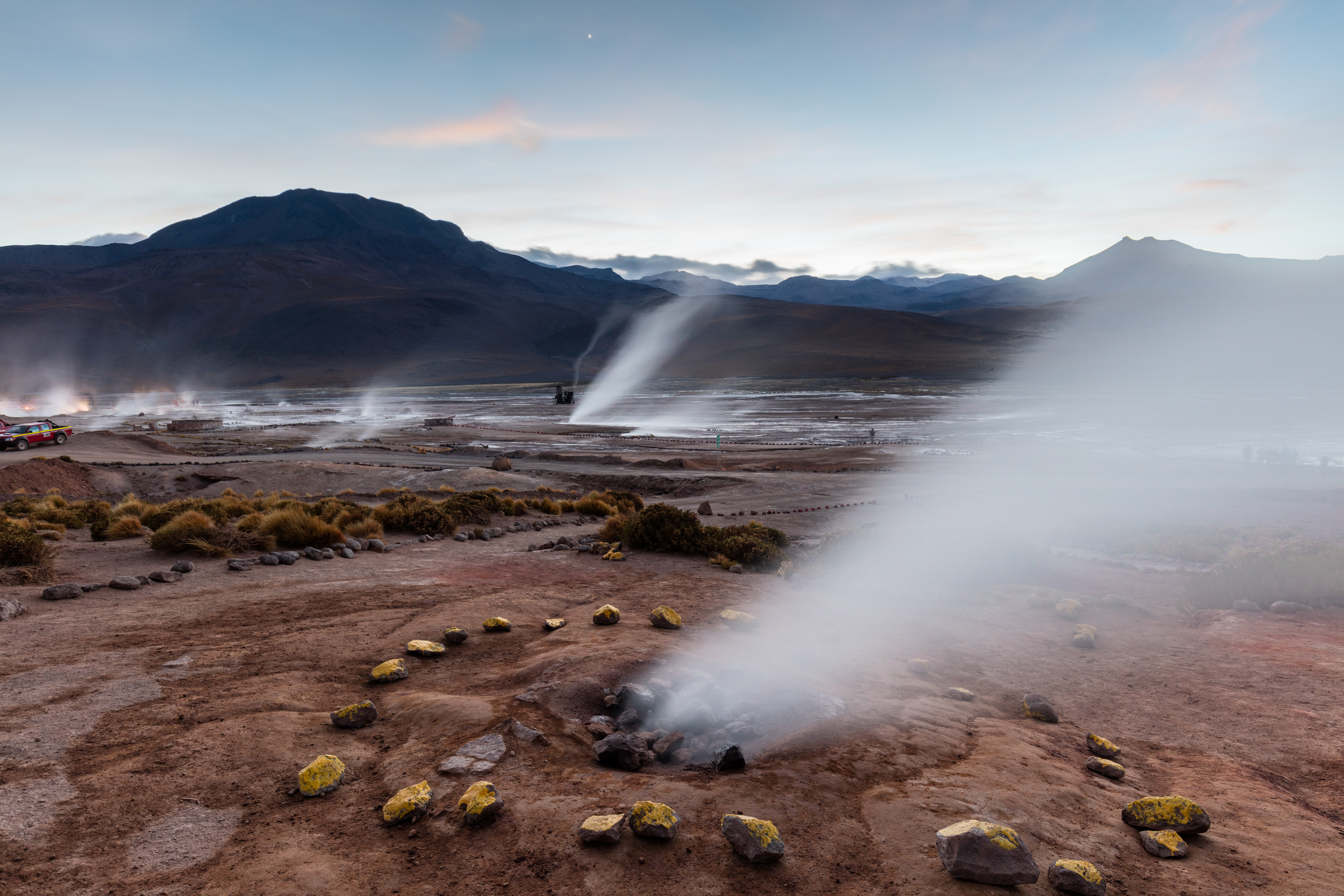 Geysers of Tatio, San Pedro de Atacama, Chile